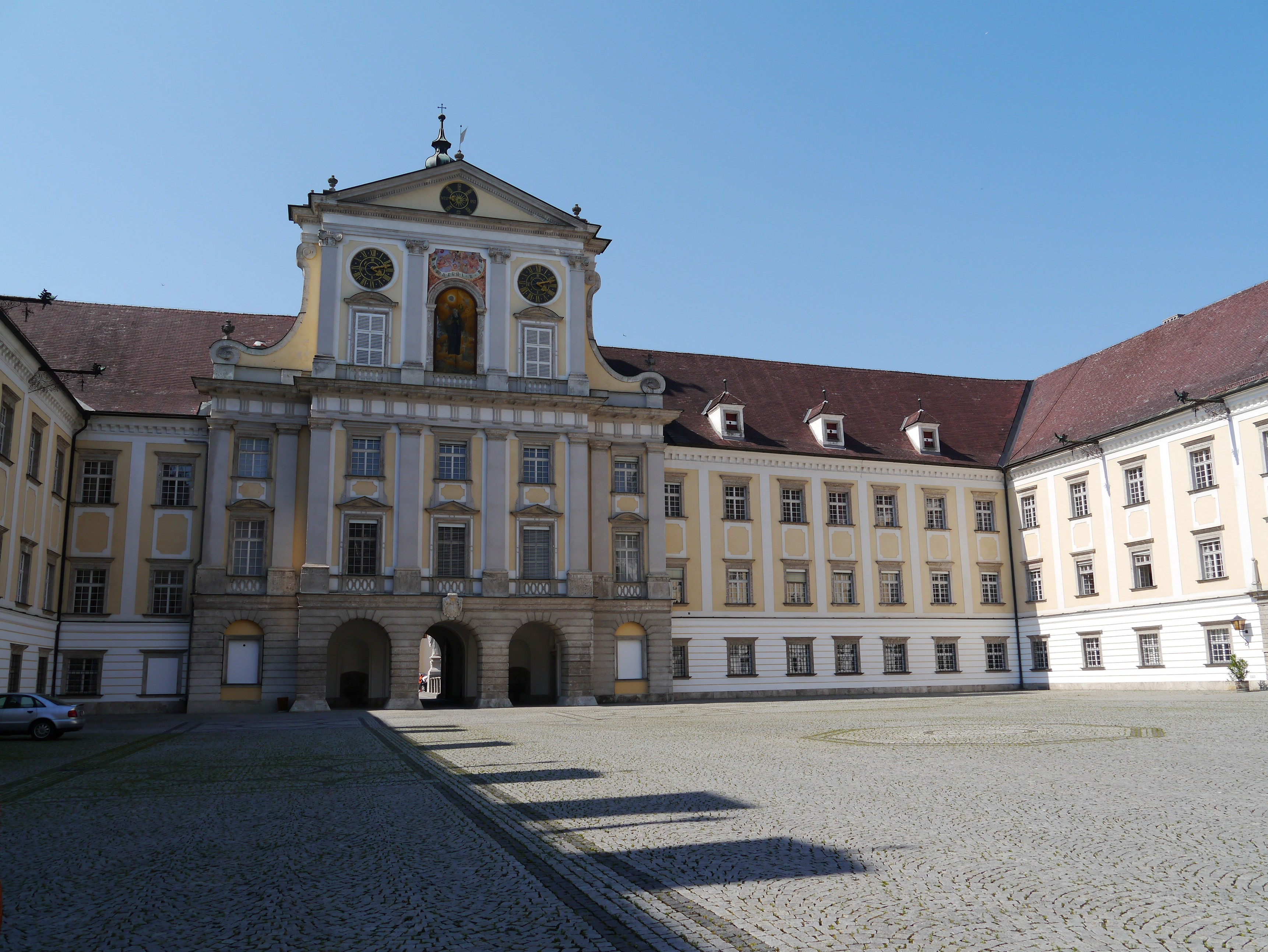 Second Inner Courtyard of Kremsmünster Abbey, Kremsmünster, Upper Austria